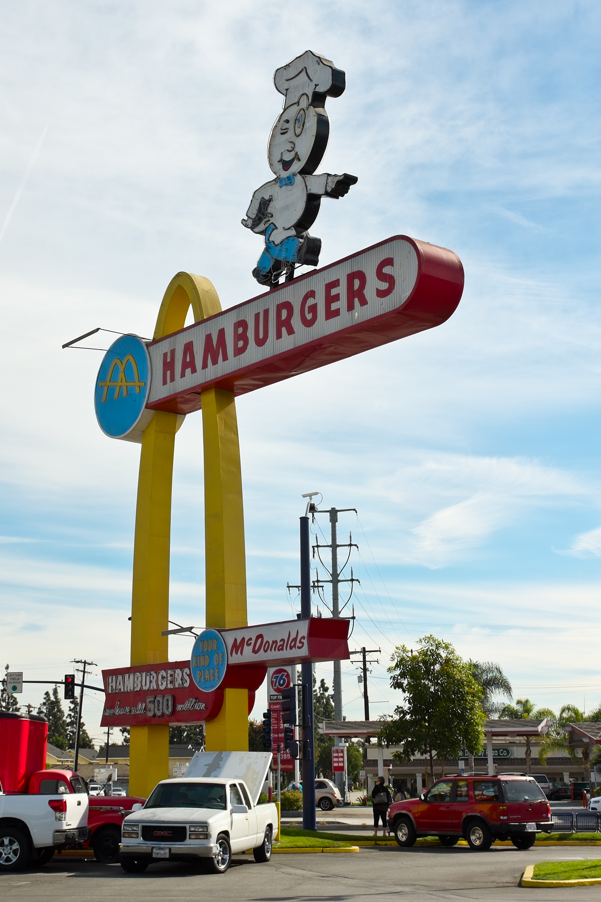 McDonalds Hamburgers sign, at the Oldest McDonald's restaurant — located in Downey, California. Original 1953 style sign, with neon lit "Speedee" logo, in front of the oldest operating McDonald's in the world.